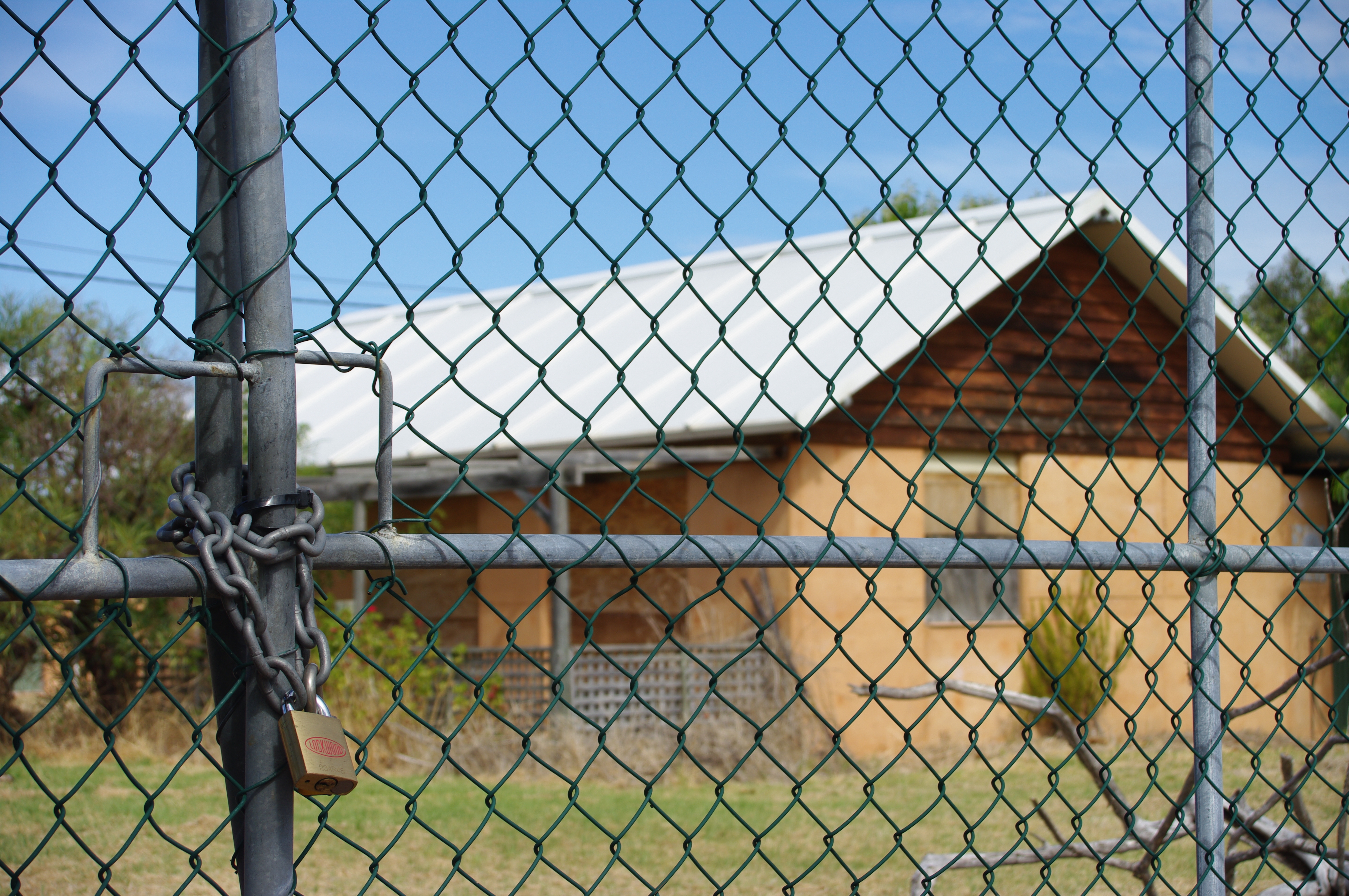 Swan Valley Nyungah Community viewed through the locked gates, the community was an Indigenious Australian residentual community on government land in the 1970's then vested to the community in 1994. Following an enquiry into claims of abuse at the community the government closed the site and removed the families in 2003. Since then it has remained vacant and the closure has been subject to a number of ongoing court cases